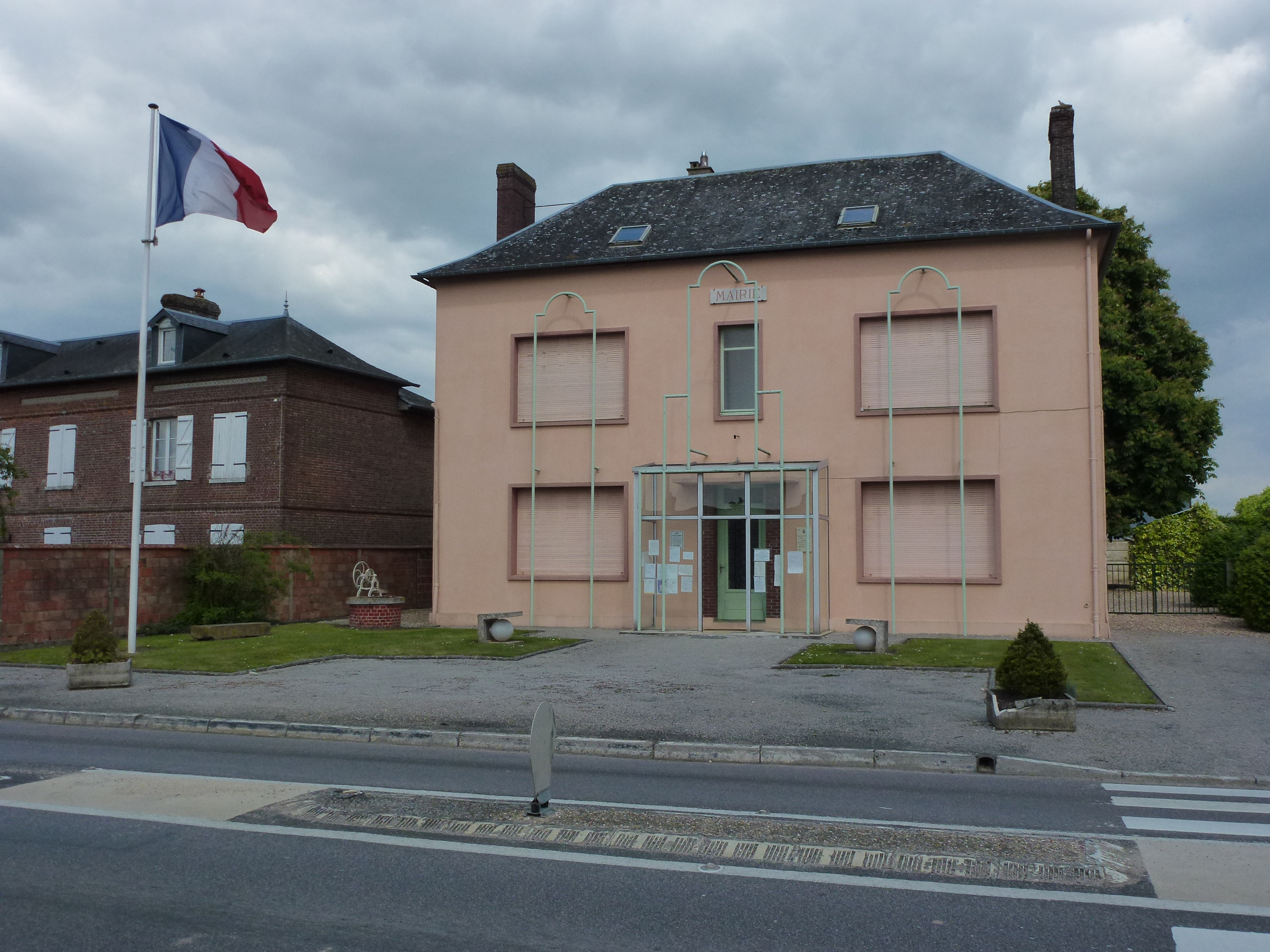 Iville (Eure, France) mairie